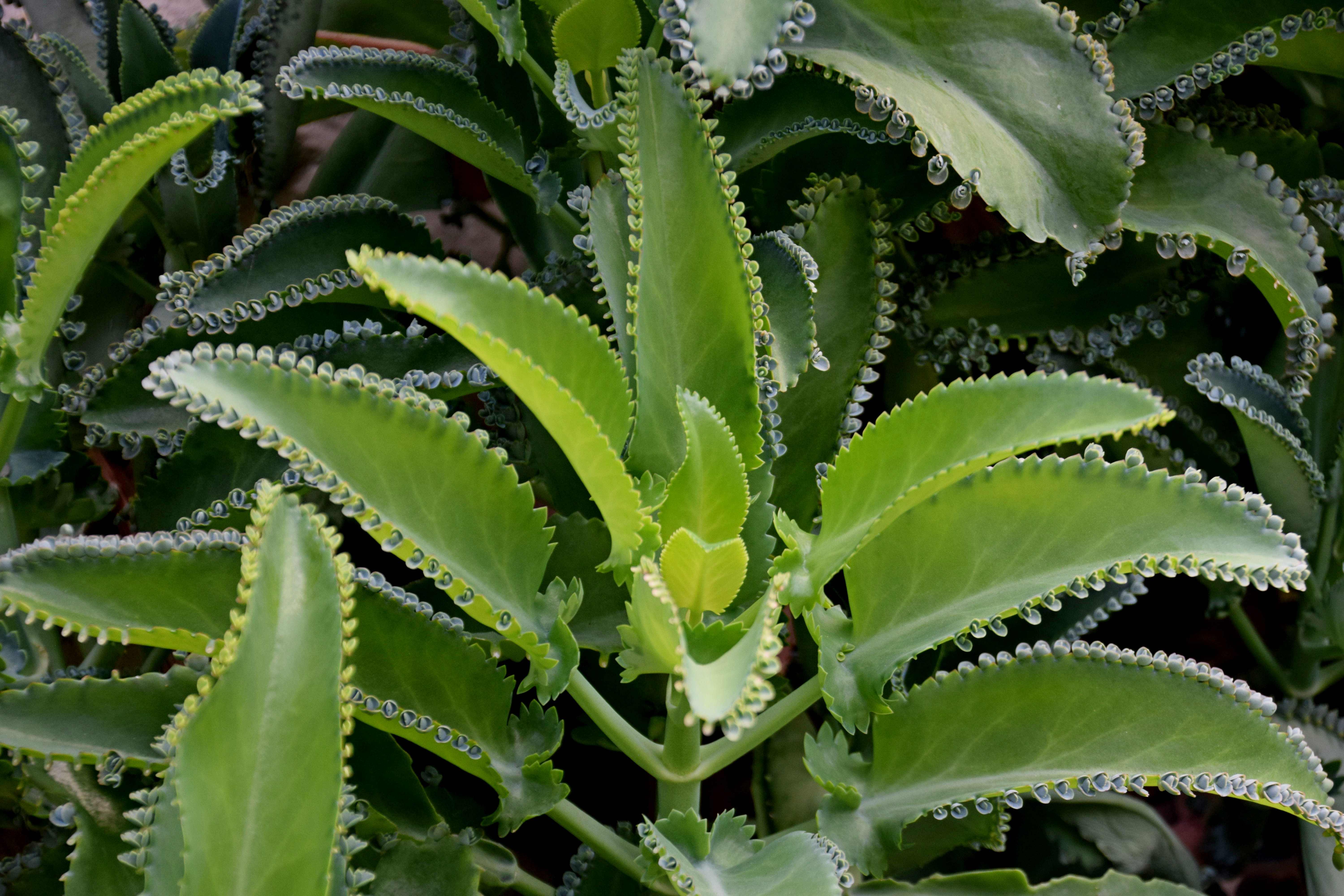 Bryophyllum laetivirens in Tropengewächshäuser des Botanischen Gartens